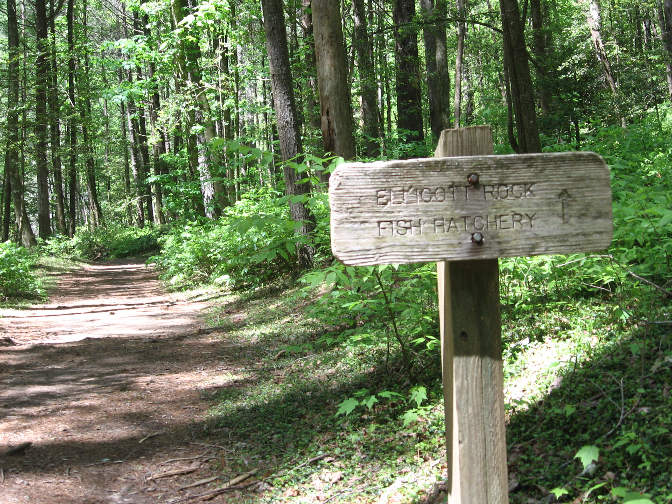 Wooden sign along the Chattooga River Trail at the Foothills Connector.